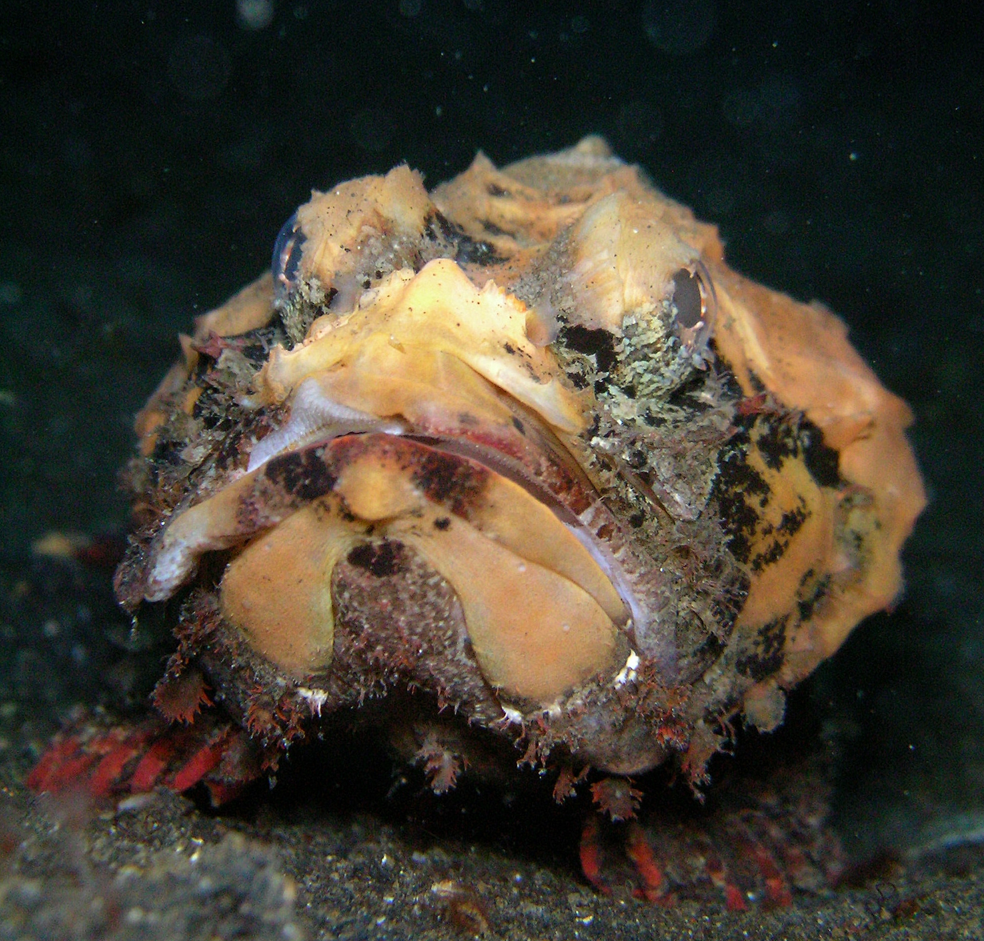 False Stonefish - Scorpaenopsis diabolus.